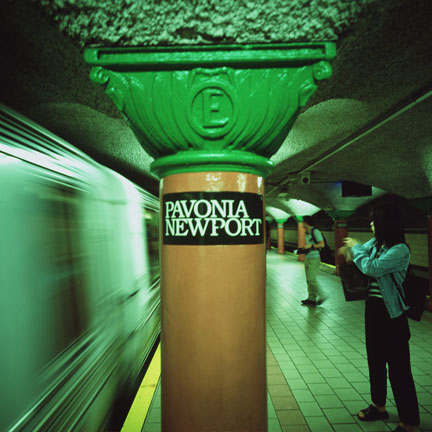 Column in the Pavonia Newport PATH Station